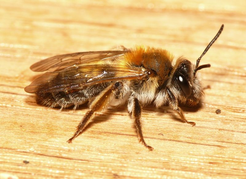 Andrena synadelpha. Location: Rhenen - Blauwe Kamer - Gelderland (The Netherlands)